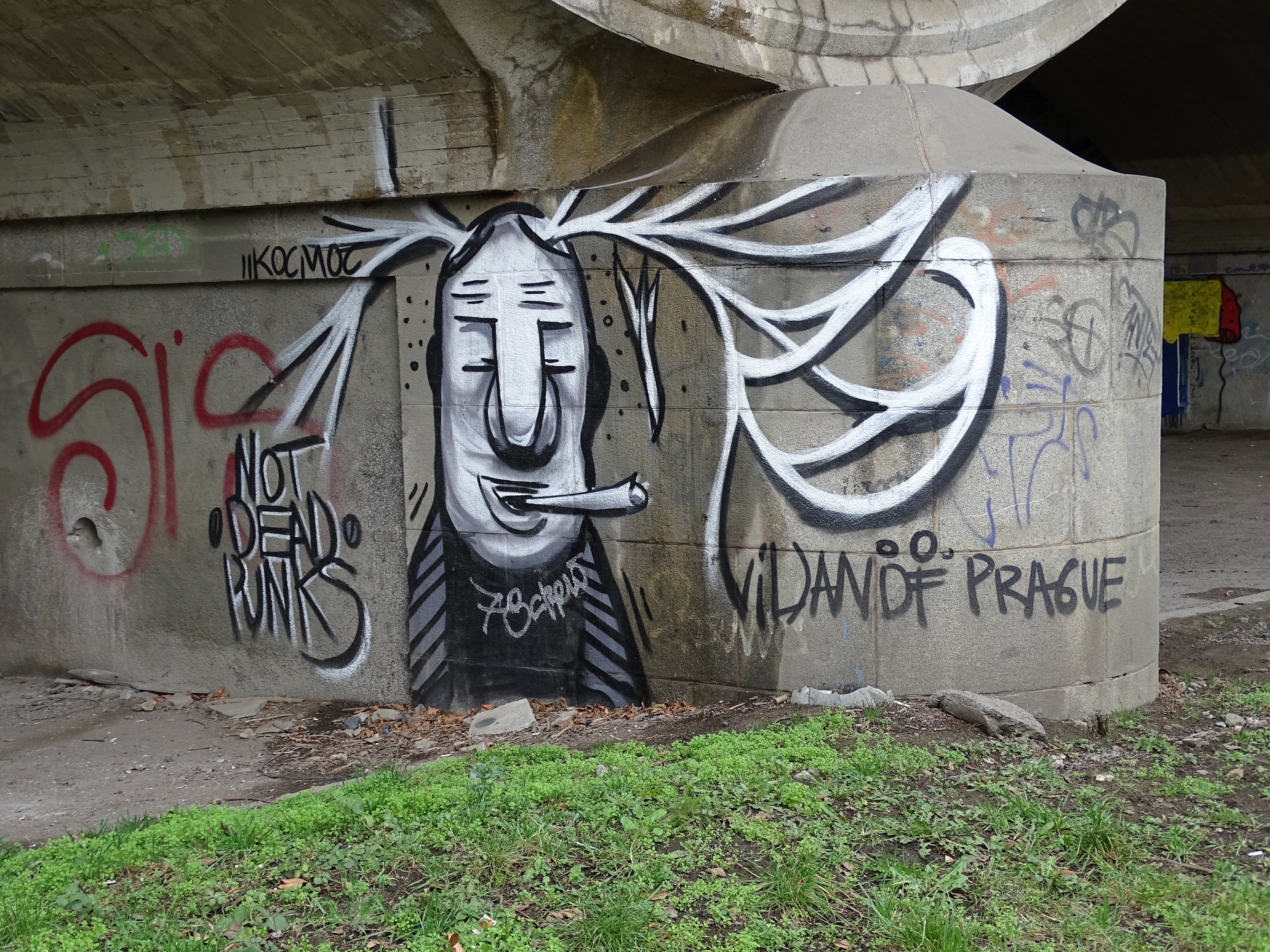 Prague-Holešovice, Czech Republic. Štvanice island, Hlávkův most.